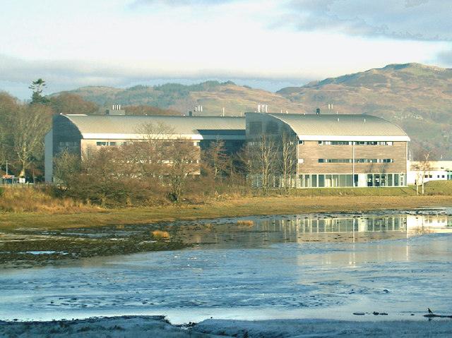 Scottish Association of Marine Sciences labs